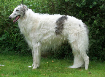 Male white Borzoi bred by kennel Yermoloff